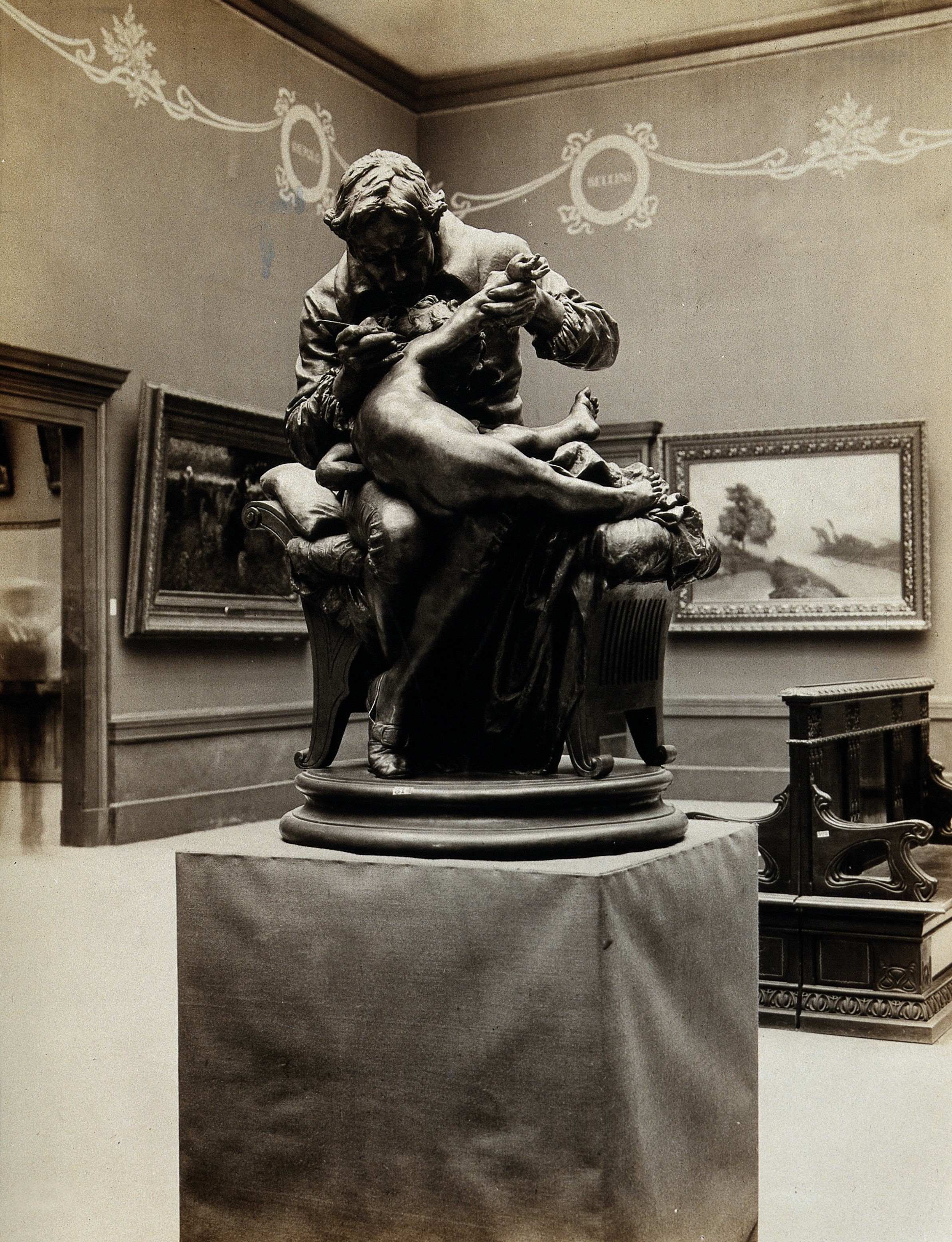 Edward Jenner. Photograph of a sculpture by Giulio Monteverde. Iconographic Collections Keywords: portrait photographs; Edward Jenner